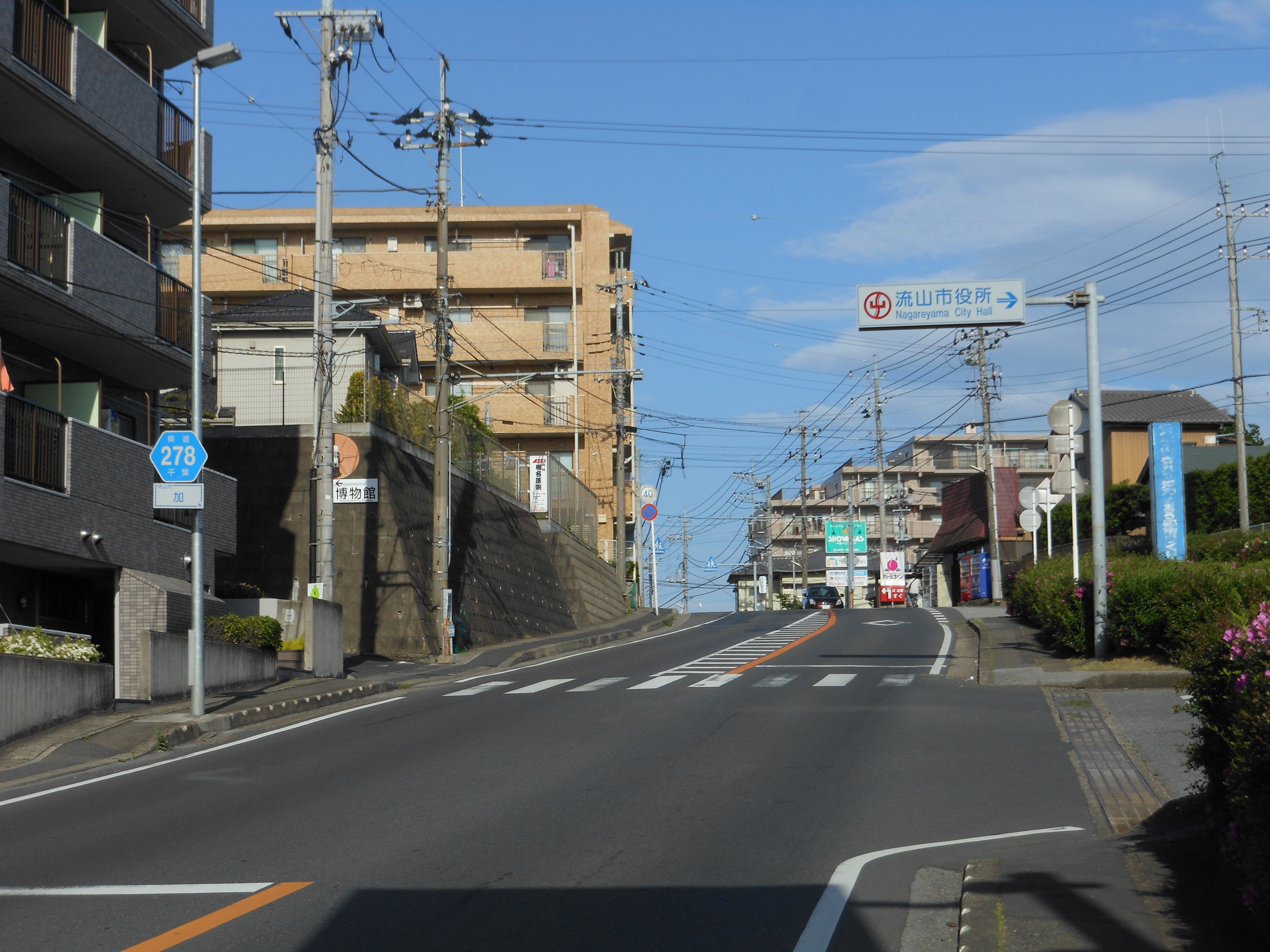 This is a landscape of Chiba prefectural Road No.278 Kashiwa-Ngareyama Line in Ka, Nagareyama, Chiba, Japan.